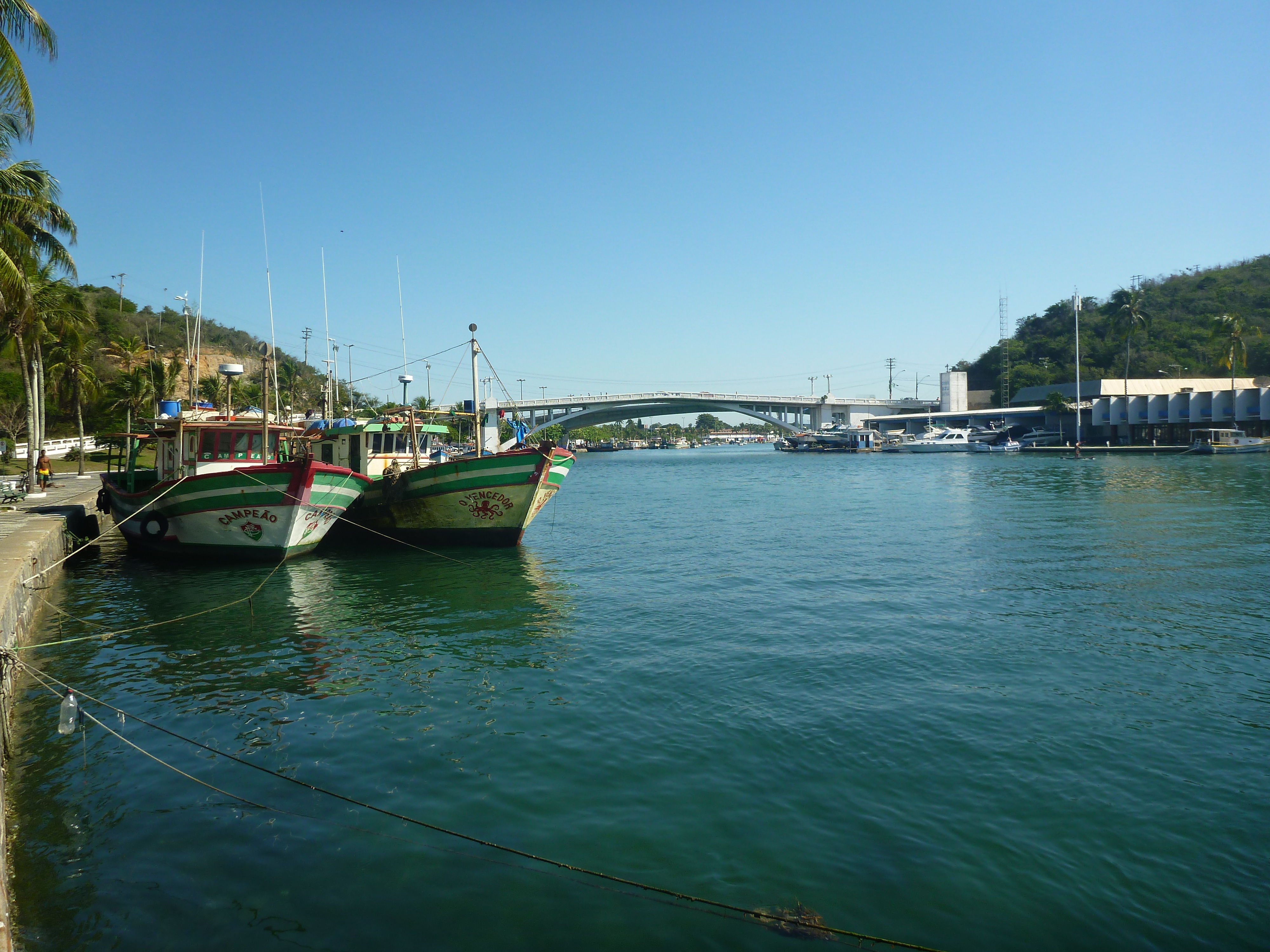 Ships at the promenade of Canal do Itajuru in Cabo Frio